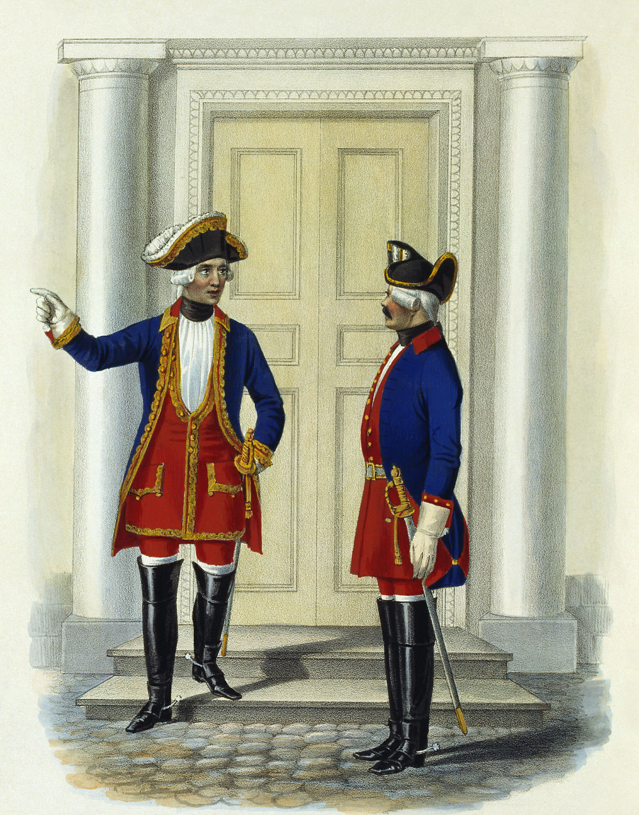 Ober-officer and reiter.